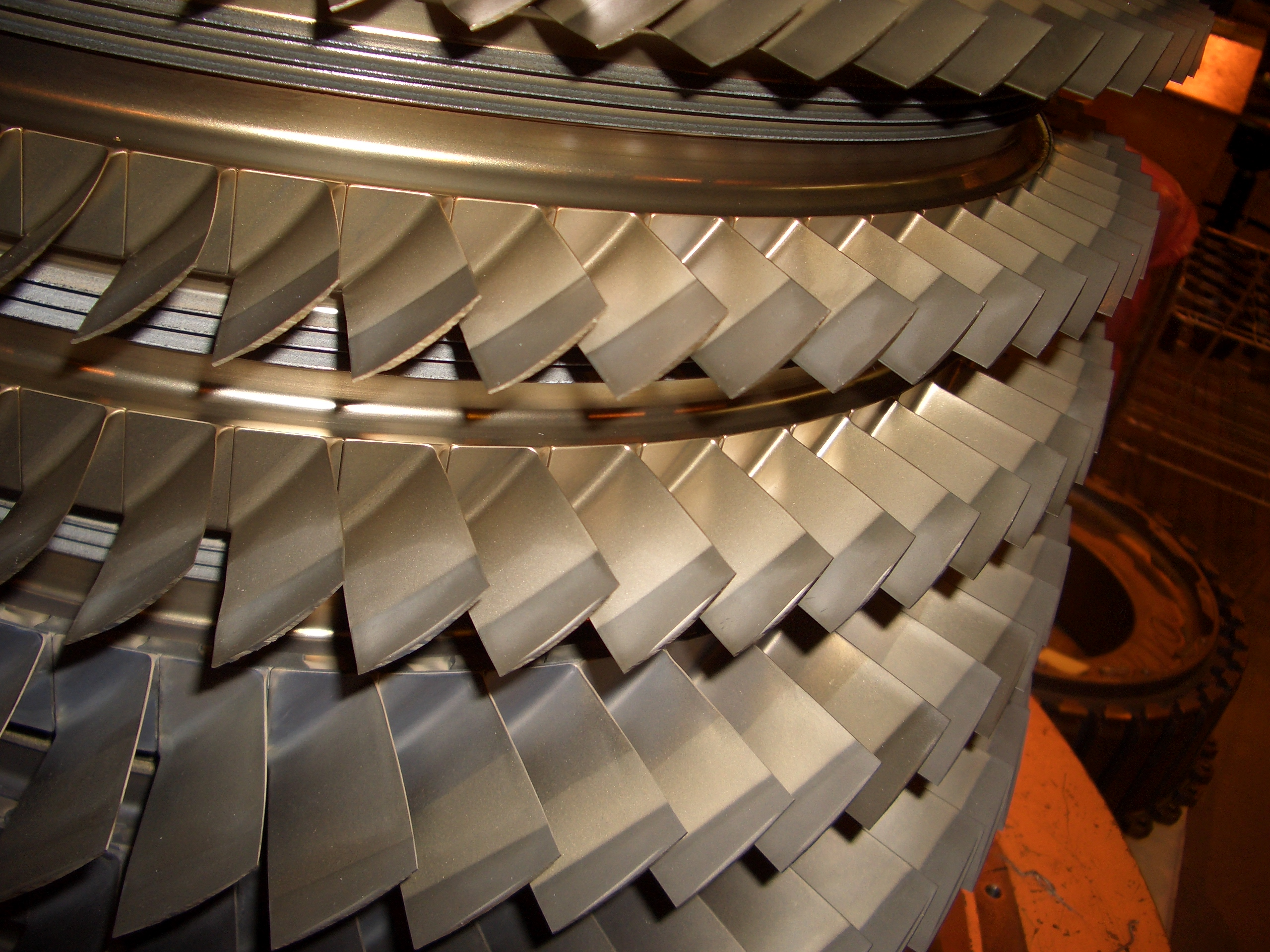 CFM56-3 assembled high pressure compressor (HPC) rotor stages.